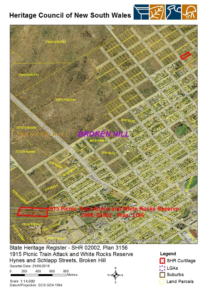 1915 Picnic Train Attack and White Rocks Reserve: SHR Plan 3156